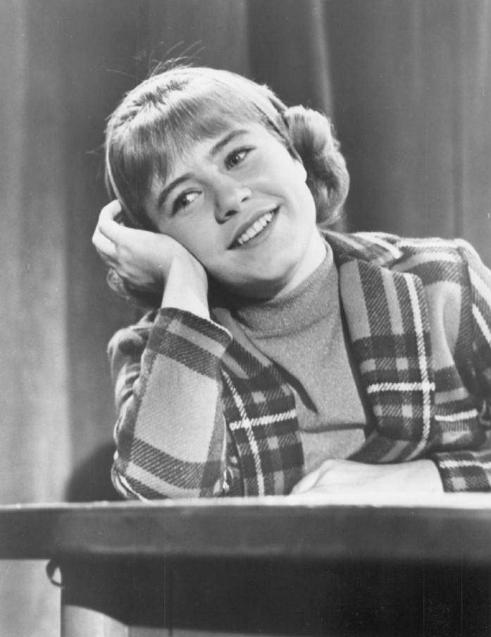 Photo of Patty Duke from the television program The Patty Duke Show.